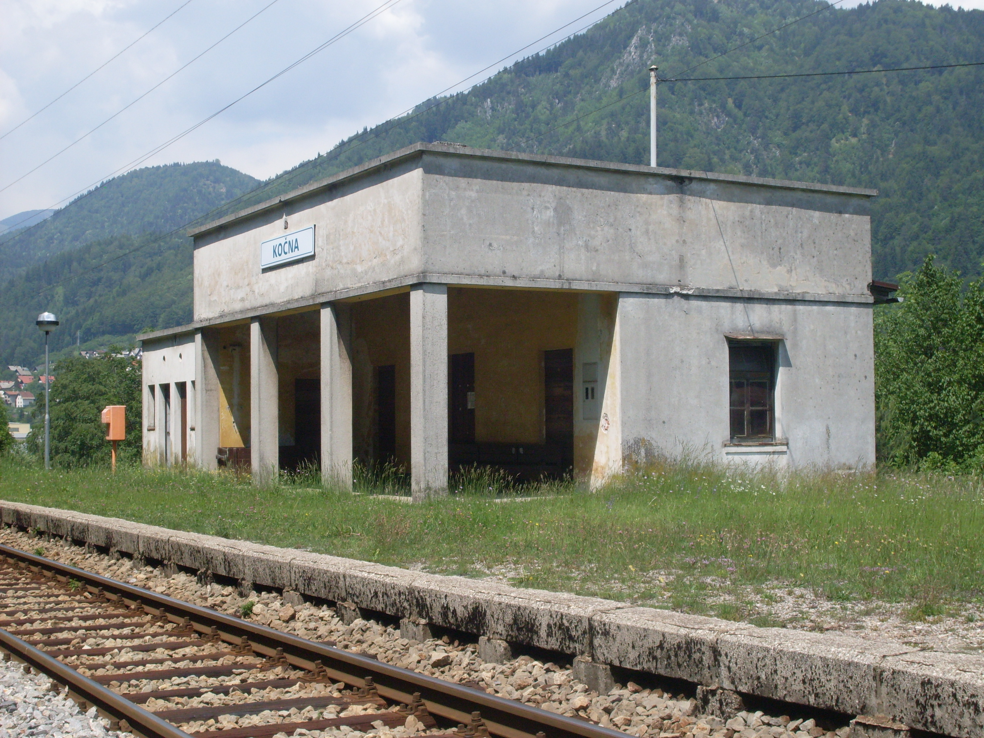 Railway halt Kočna, located in Podkočna (today de facto a part of Jesenice)